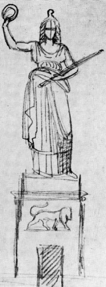 Scetch for Bavaria statue